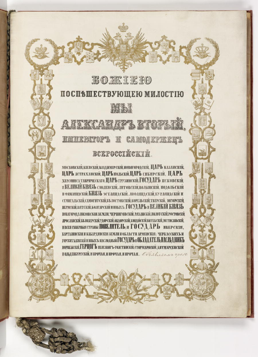 Tsar's ratification of the Alaska purchase